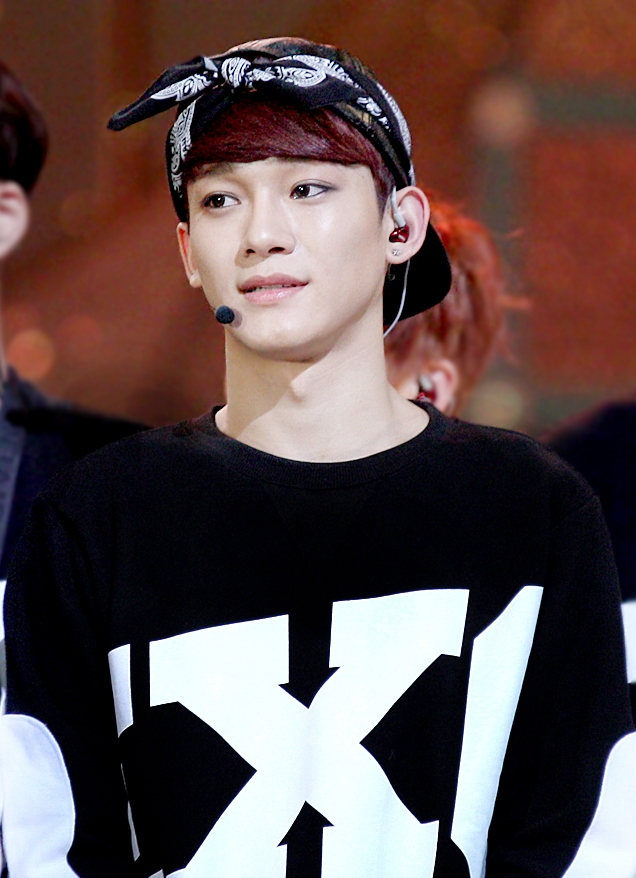 Chen at Golden Disk Awards on January 16, 2014.